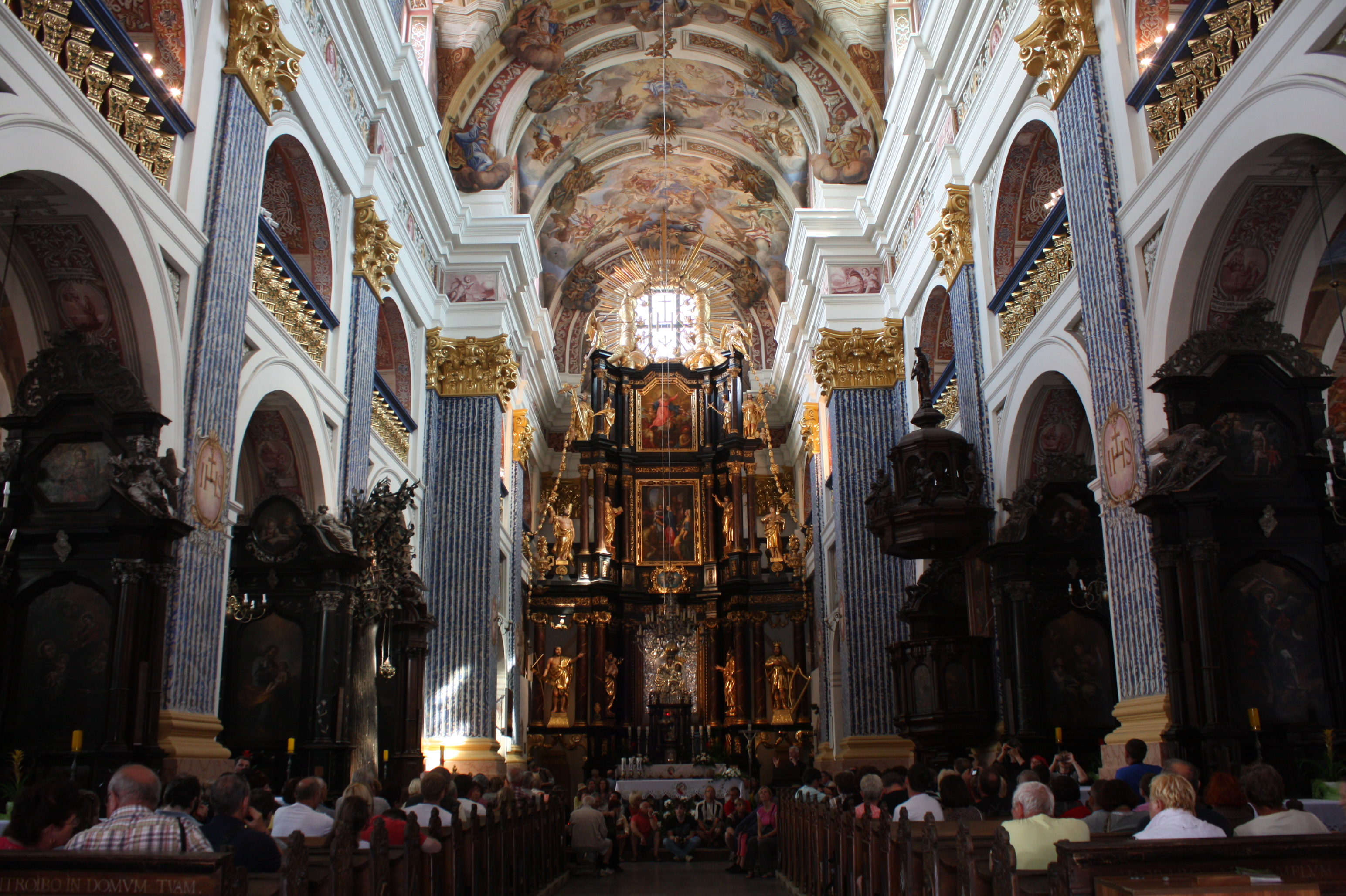 This photo of Warmian-Masurian Voivodeship was taken during Wikiexpedition 2012 set up by Wikimedia Polska Association. You can see all photographs in category Wikiekspedycja 2012. The making of this document was supported by Wikimedia Polska.